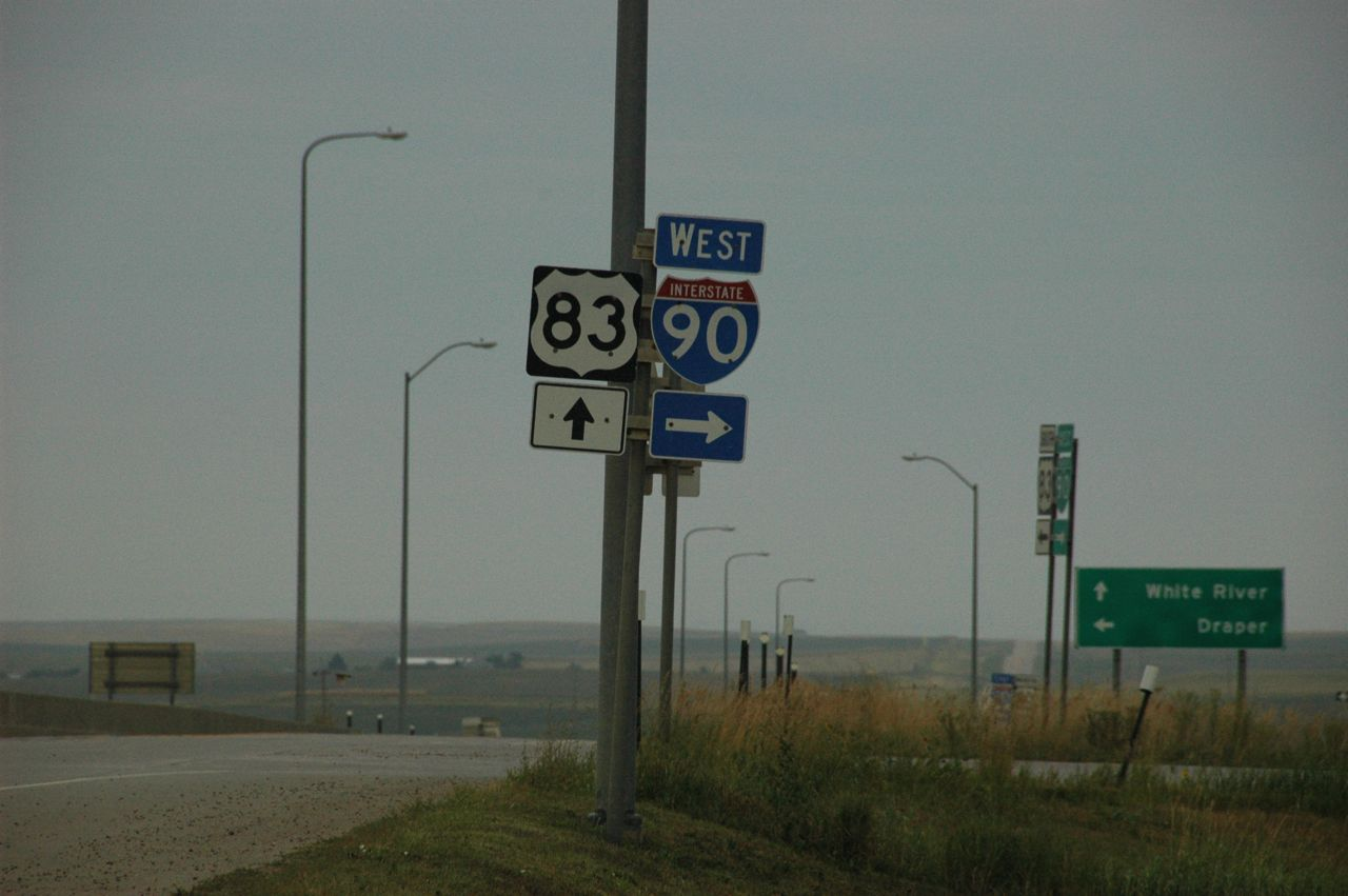 Looking south at the intersection of U.S. Route 83 and Interstate 90 in Murdo, South Dakota. Northbound U.S. 83 runs concurrent with I-90 at this point.